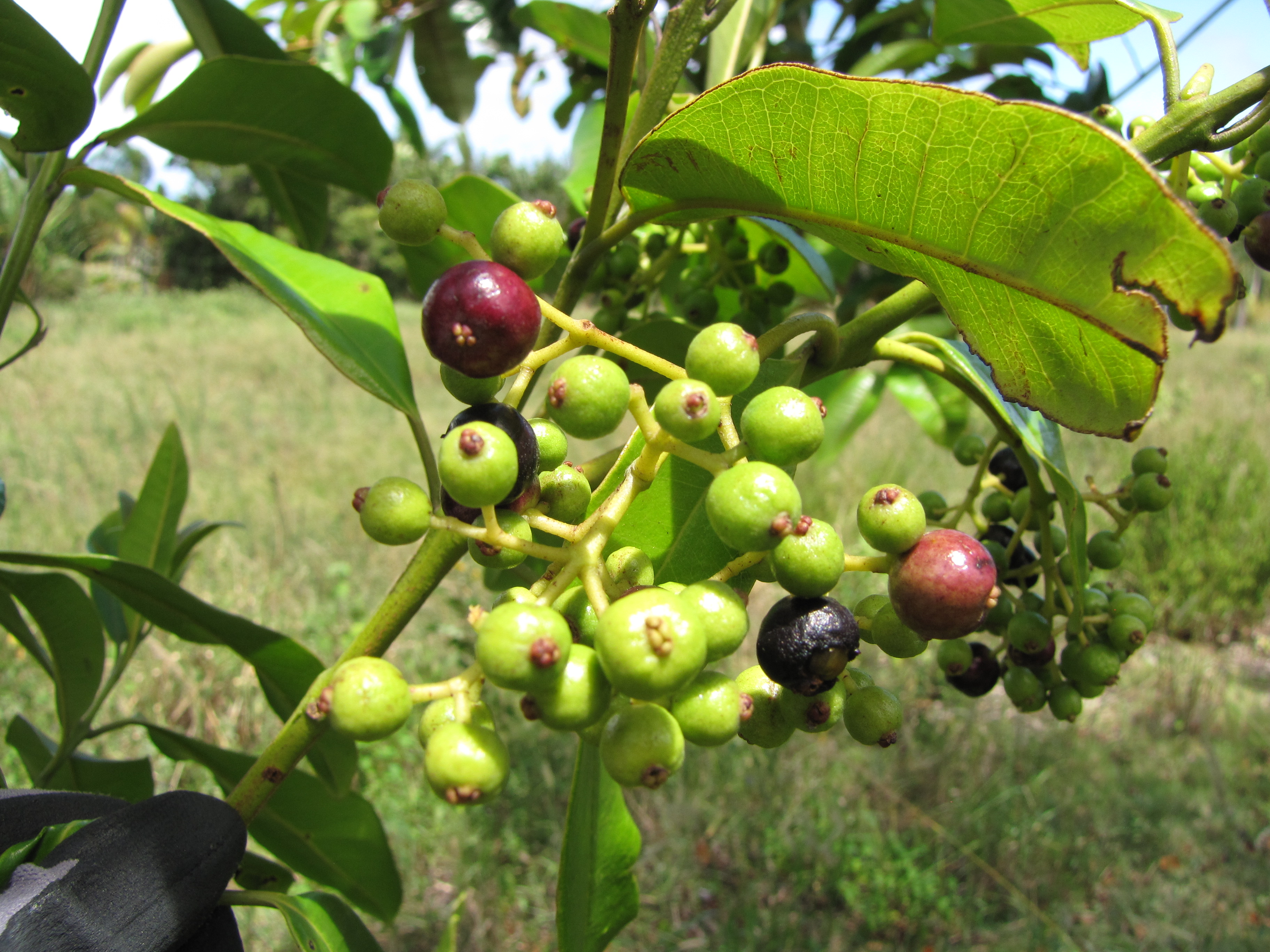 Pimenta dioica (All spice) Leaves and fruit at Haiku, Maui, Hawaii. August 26, 2010 #100826-8677 - Image Use Policy Also known as Pimenta officinalis.